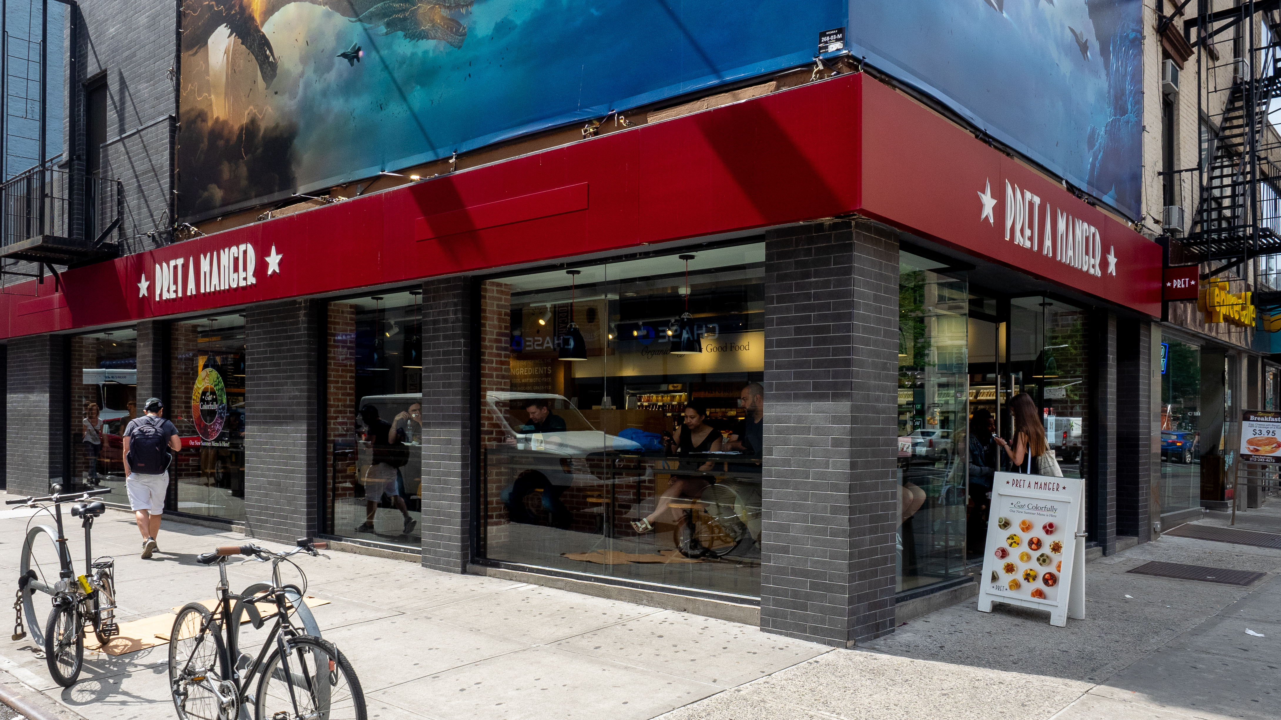 Chelsea, NYC